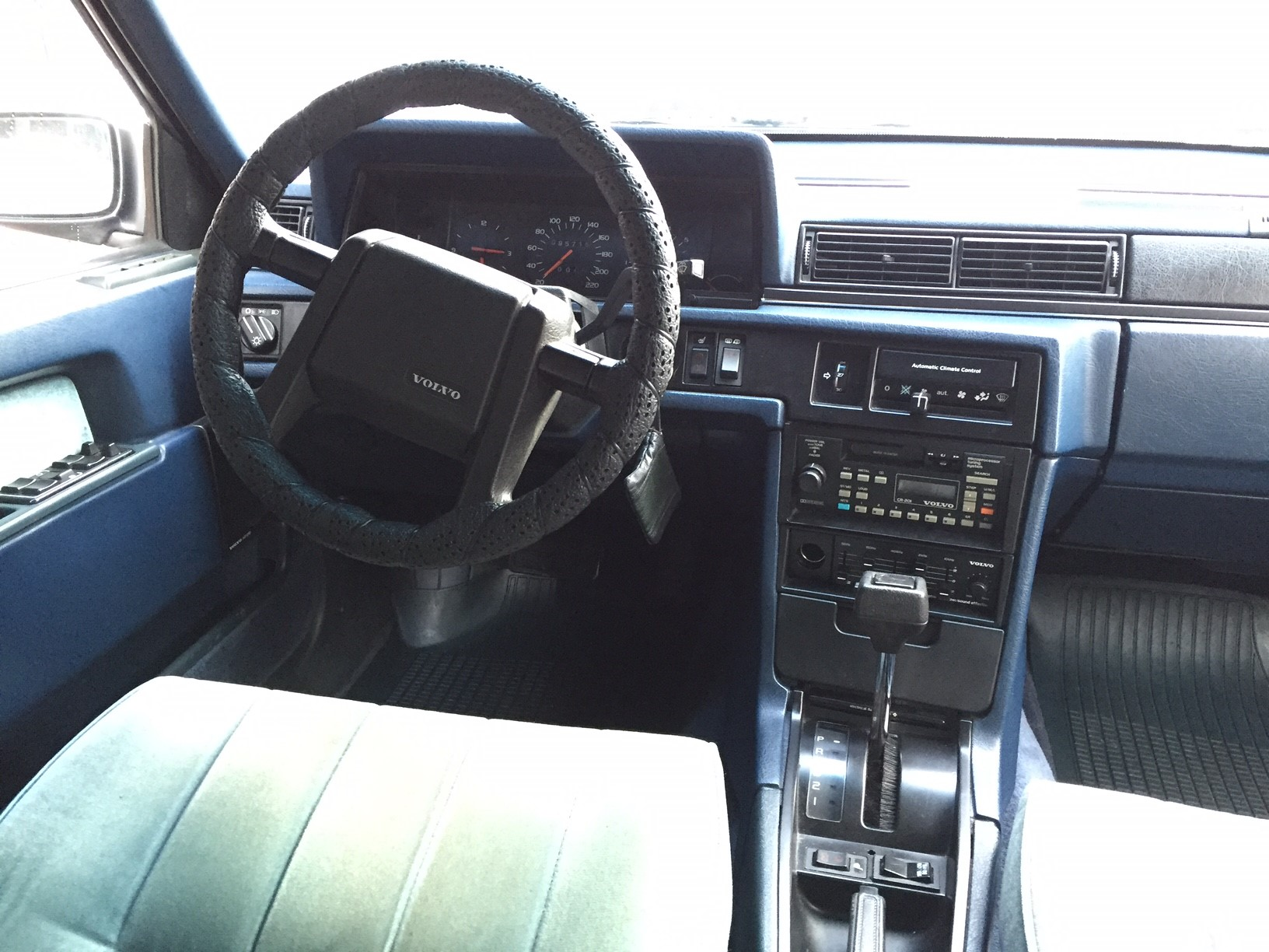 The Cockpit of the DDR-Version from Volvo 760 GLE (Stretch)